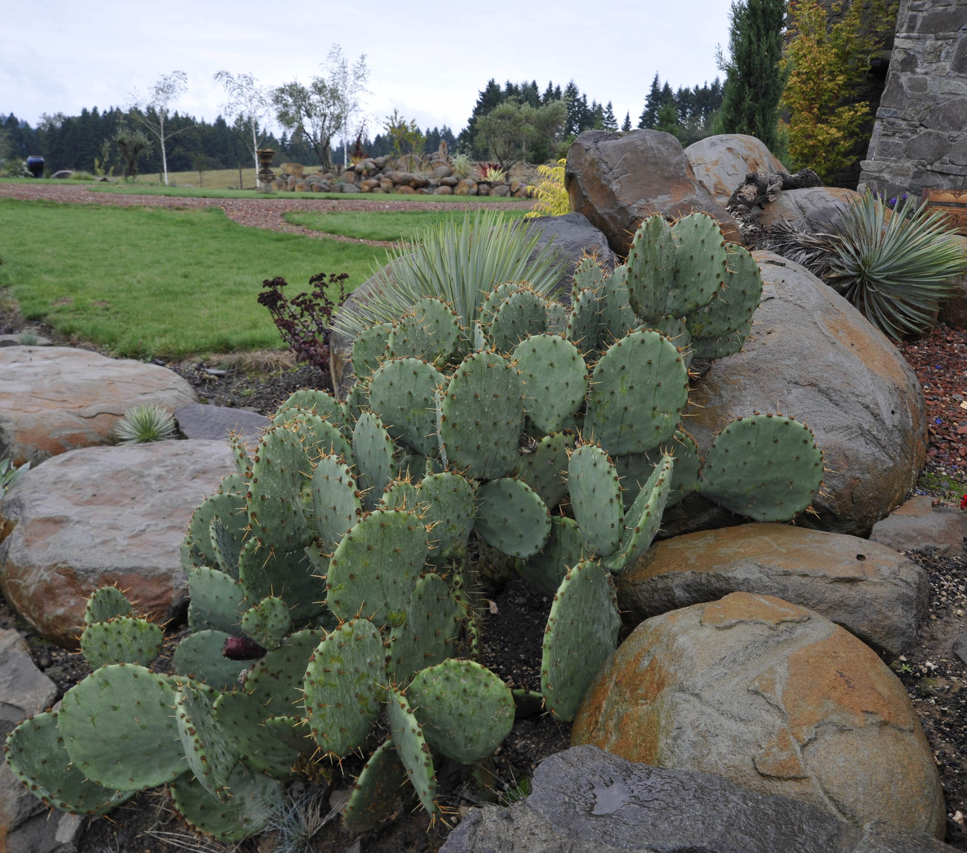 Opuntia cyclodes at Rare Plant Research, Oregon City, Oregon, USA